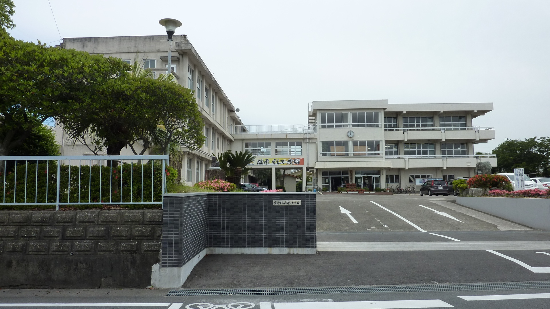 Miyazaki Prefectural Nobeoka High School (Nobeoka City, Miyazaki, Japan)